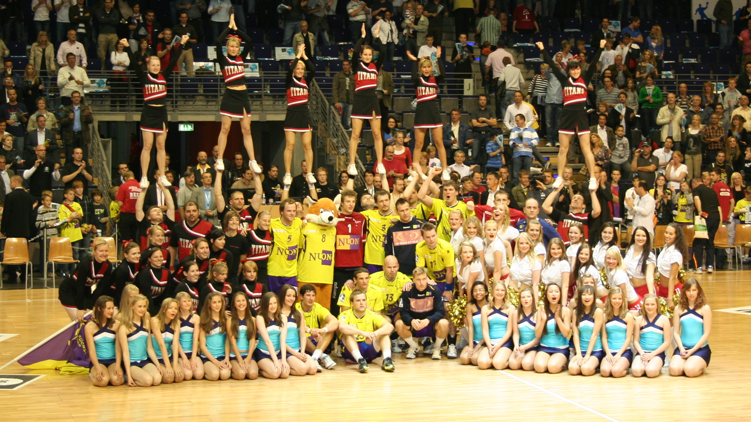 The team of Fuechse Berlin with their mascot Fuchsi, the dancers of Dance Deluxe and Dance Delight and the cheerleaders Titans Berlin at the season final 2009.